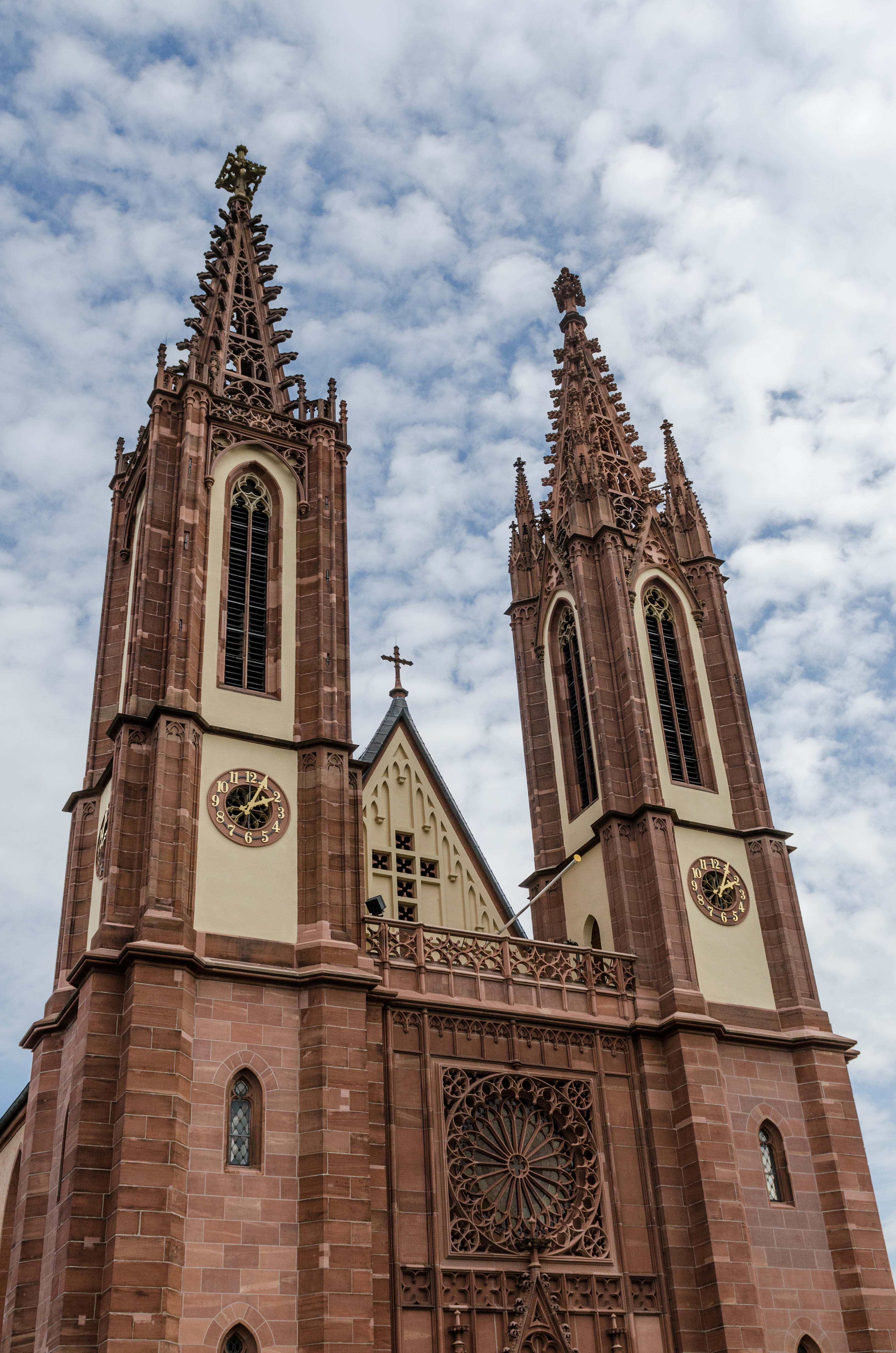 A closeup of the Rheingau Cathedral